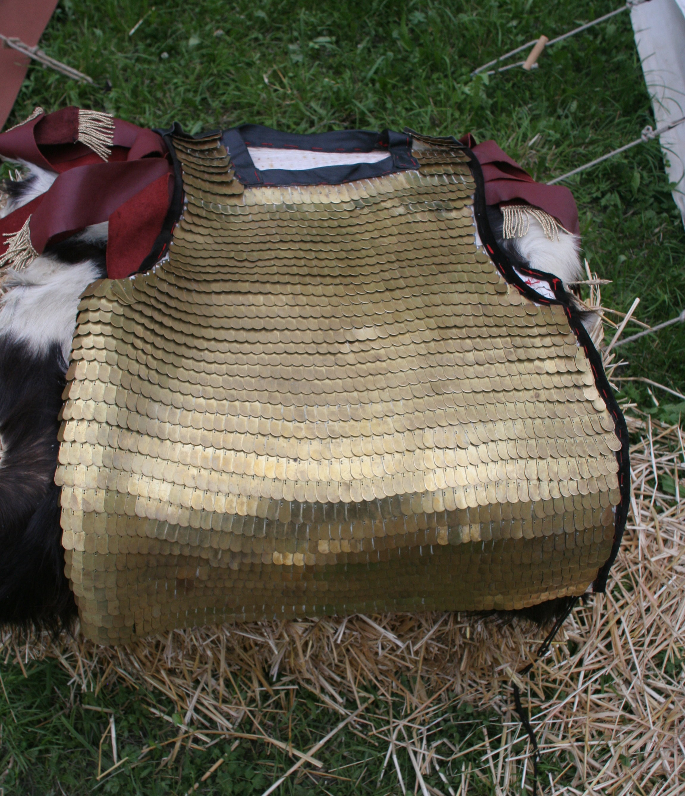 Scale mail, 175 a.C.